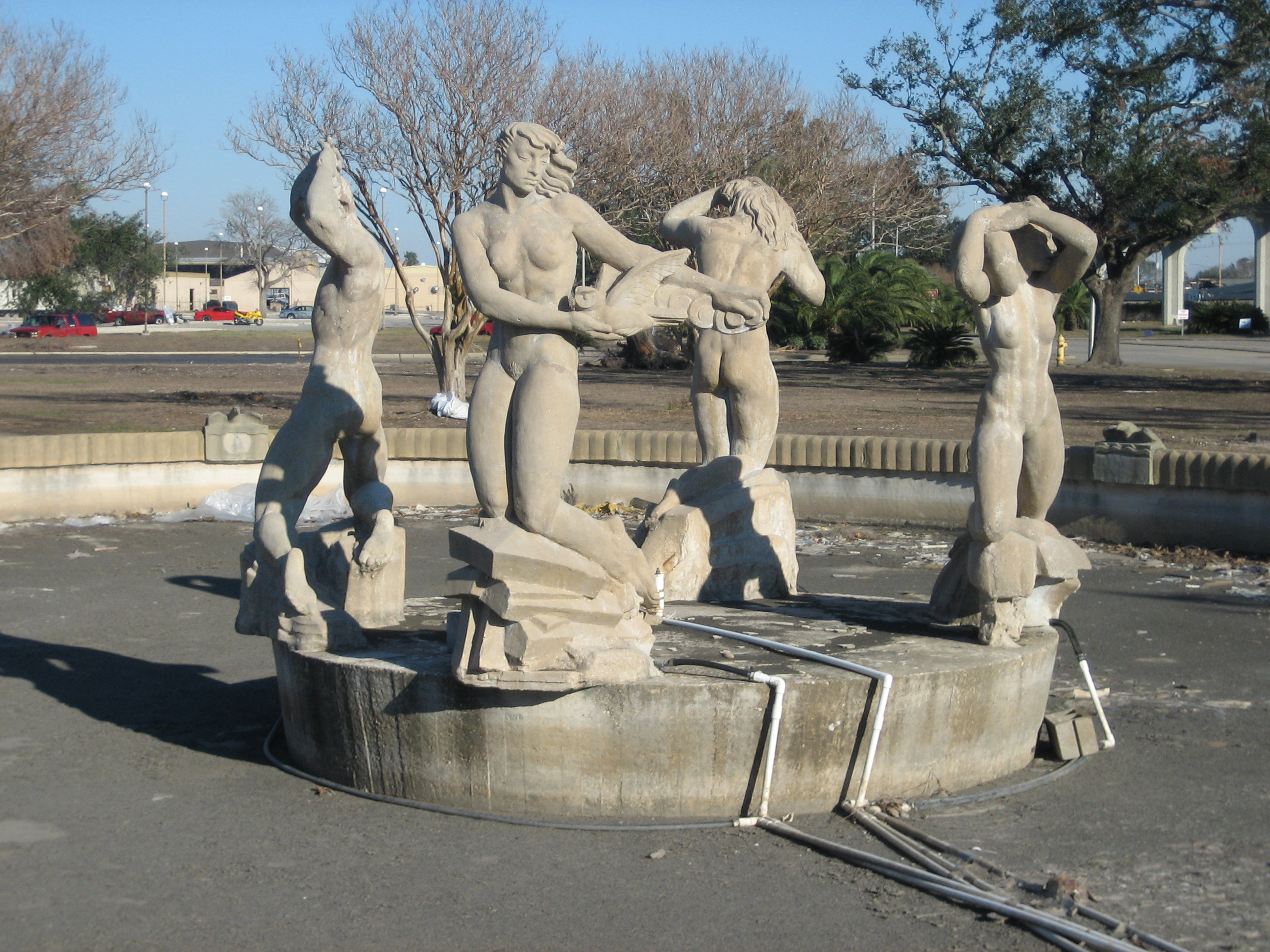 Enrique Alfarez 1930s sculpture "Fountain of the Winds", Lakefront Airport, New Orleans Fountain dry and flood silted after Hurricane Katrina.